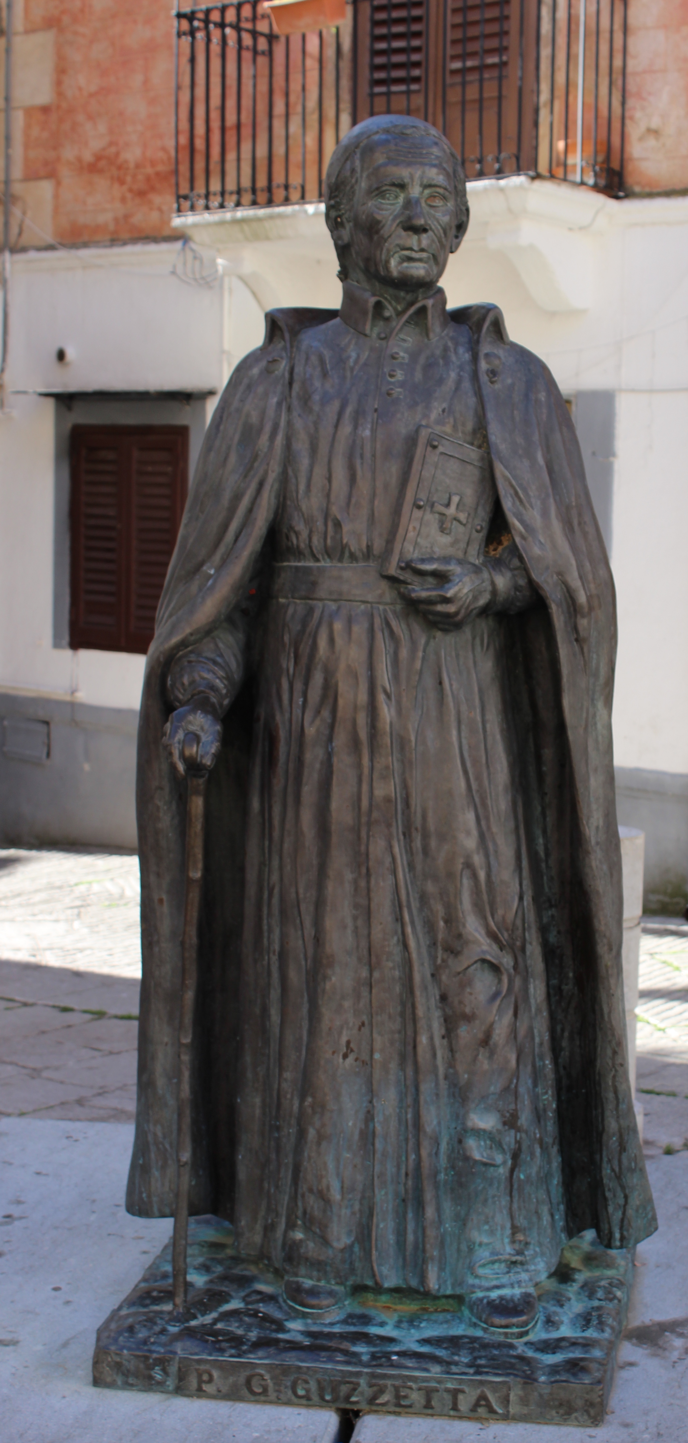 Bronze statue of Blessed Father Giorgio Guzzetta, Apostle of the Albanians of Sicily; square of Piana degli Albanesi (PA), Spiridione Marino italo-albanian artist (2009).